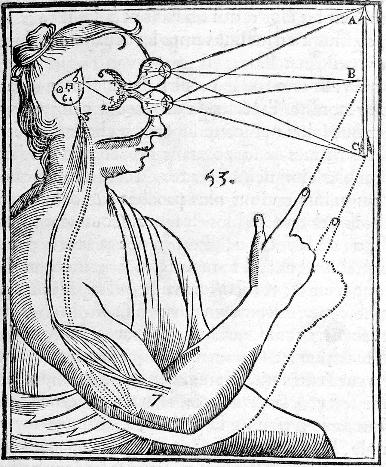 Figure from page 81 Rare Books Keywords: EYES; Movement; Eye